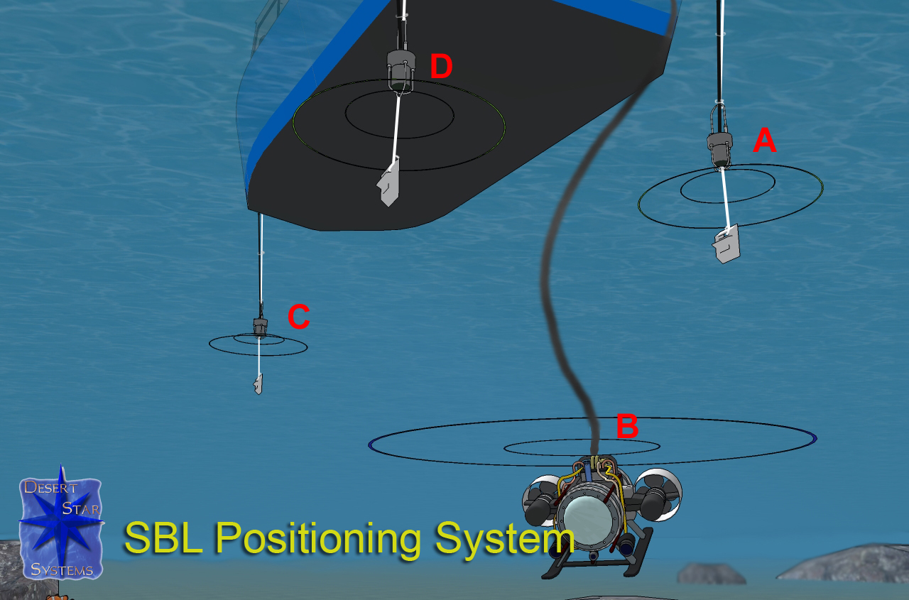 Operation of a Short Baseline (SBL) Acoustic Positioning System: Surface station sonar transducer (A) sends an interrogate that is received by a transponder mounted on the tracked target (B). The transponder reply is received by three or more surface transducers (A, C, D). The positioning system determines distances B-A, B-C and B-D by measuring the signal run time and multiplying by the speed of sound. These distances in conjunction with depth information such as from a depth sensor on the tracked target are used to triangulate the target positions. Tracking precision depends on the spacing of the baseline (surface) transducers and the distance of the target. Wider spacing yields better precision.